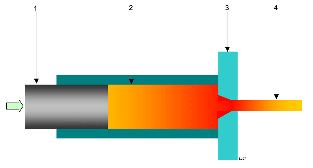 Extrusion. Visualization of the discontinuous extrusion process. March 2007. Laurens van Lieshout.